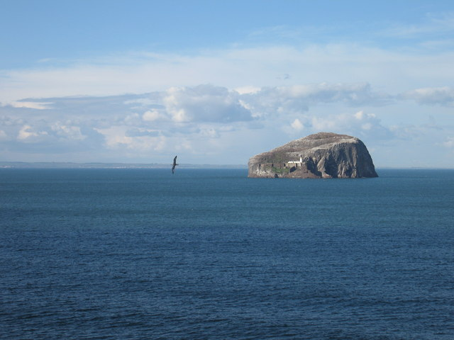 View of Bass Rock, home of the worlds larget gannet colony, taken from cliff top at Auldhame.